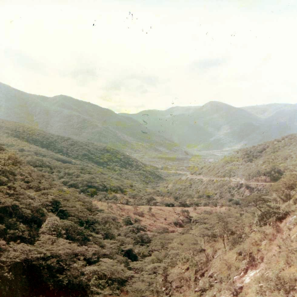 Iringa highland region, Tanzania